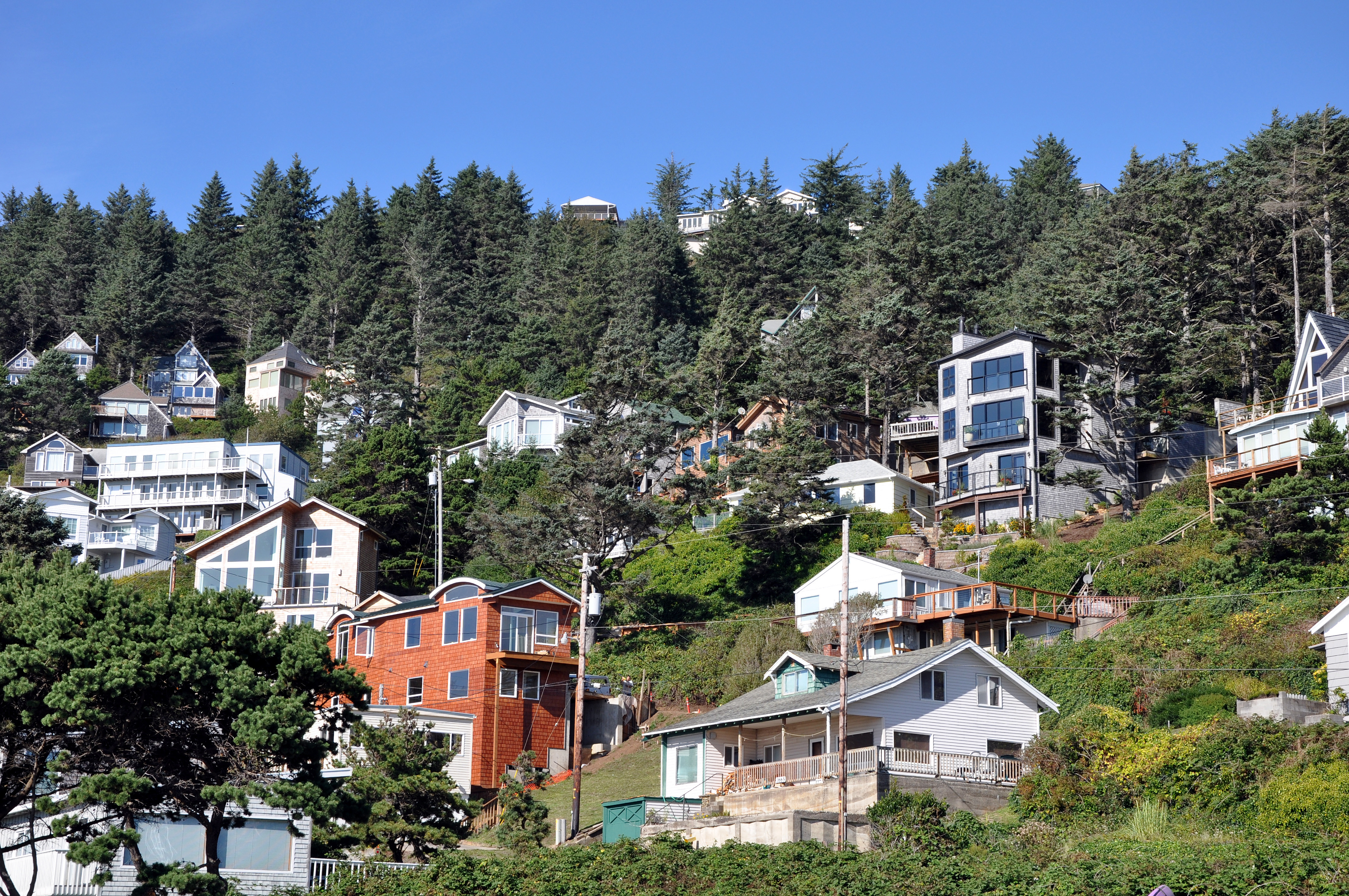 Houses in Oceanside, Oregon, United States, look toward the Pacific Ocean. View is to the east from near the beach.